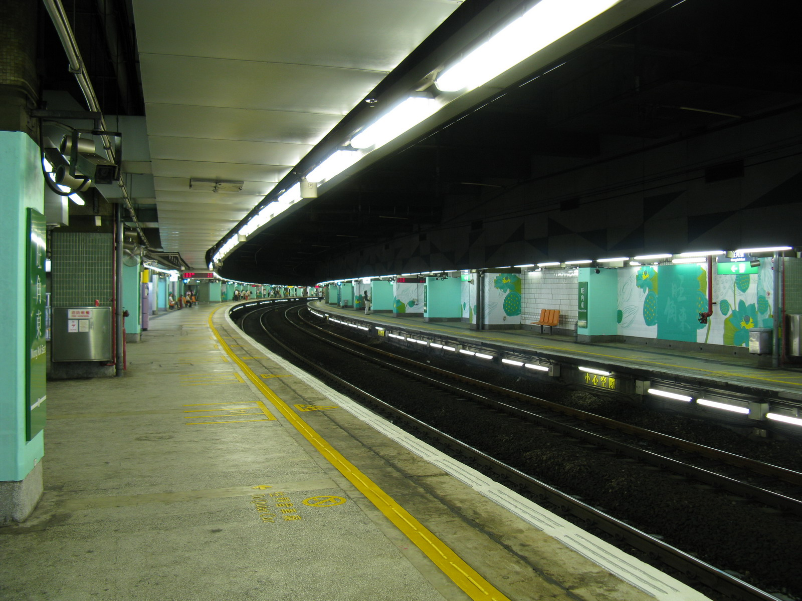 East Rail Line Platform of Mong Kok East Station